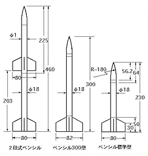 Pencil rocket shape, the very first Japanese rocket.